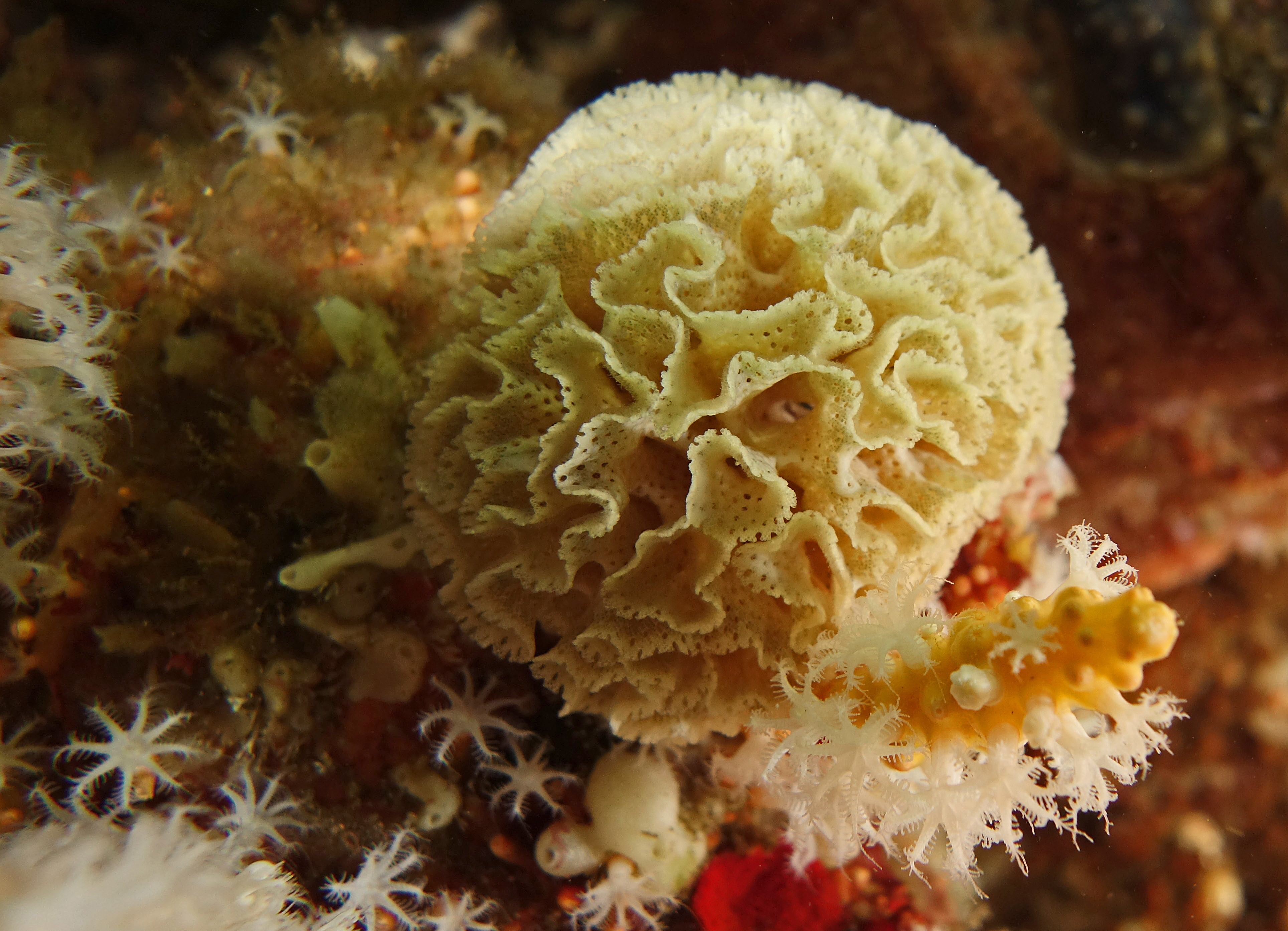 Triphyllozoon moniliferum (Lace bryozoan) Shark Point, Clovelly